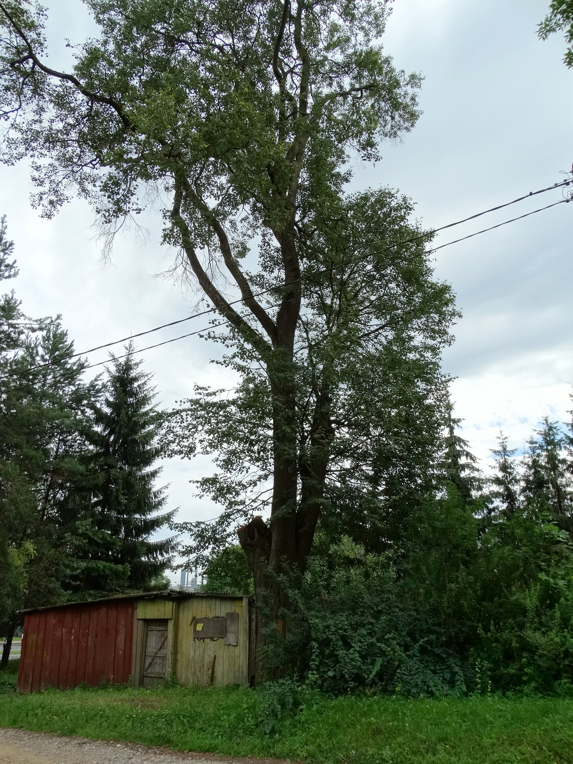 Lime tree in Žvėrynas, Vilnius, Lithuania